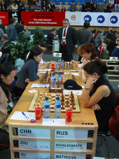 Russia : China - women en:35th Chess Olympiad